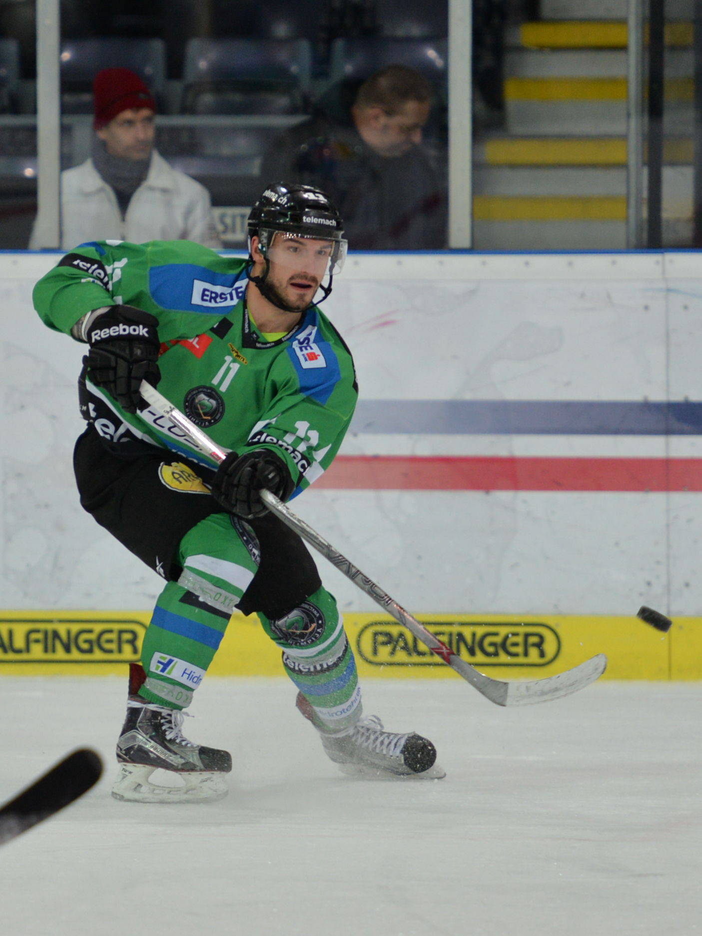 EBEL Red Bull Salzburg vs Olimpija Ljubljana 2016-01-17